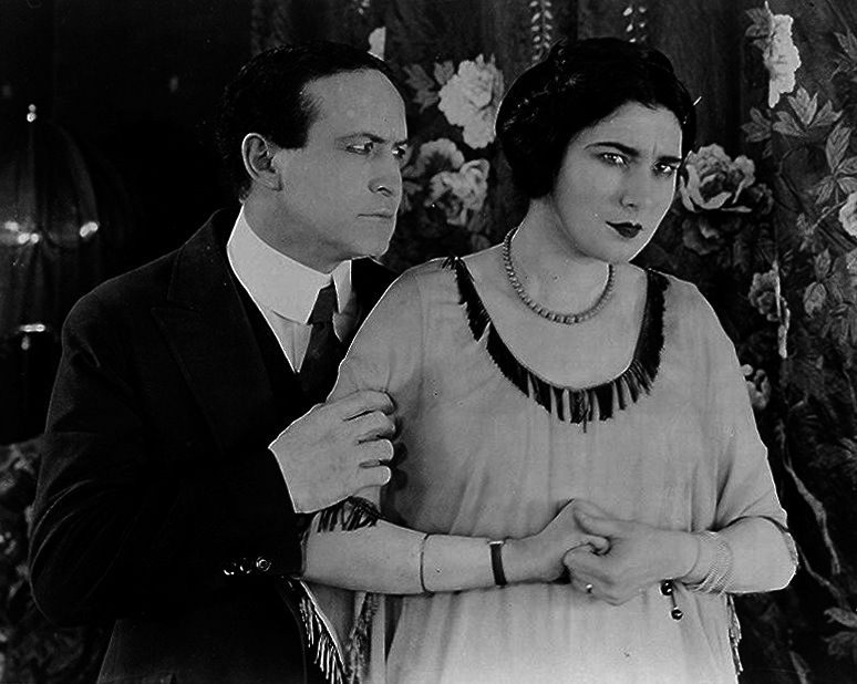 Harry Houdini & Nita Naldi in The Man from Beyond - cropped screenshot